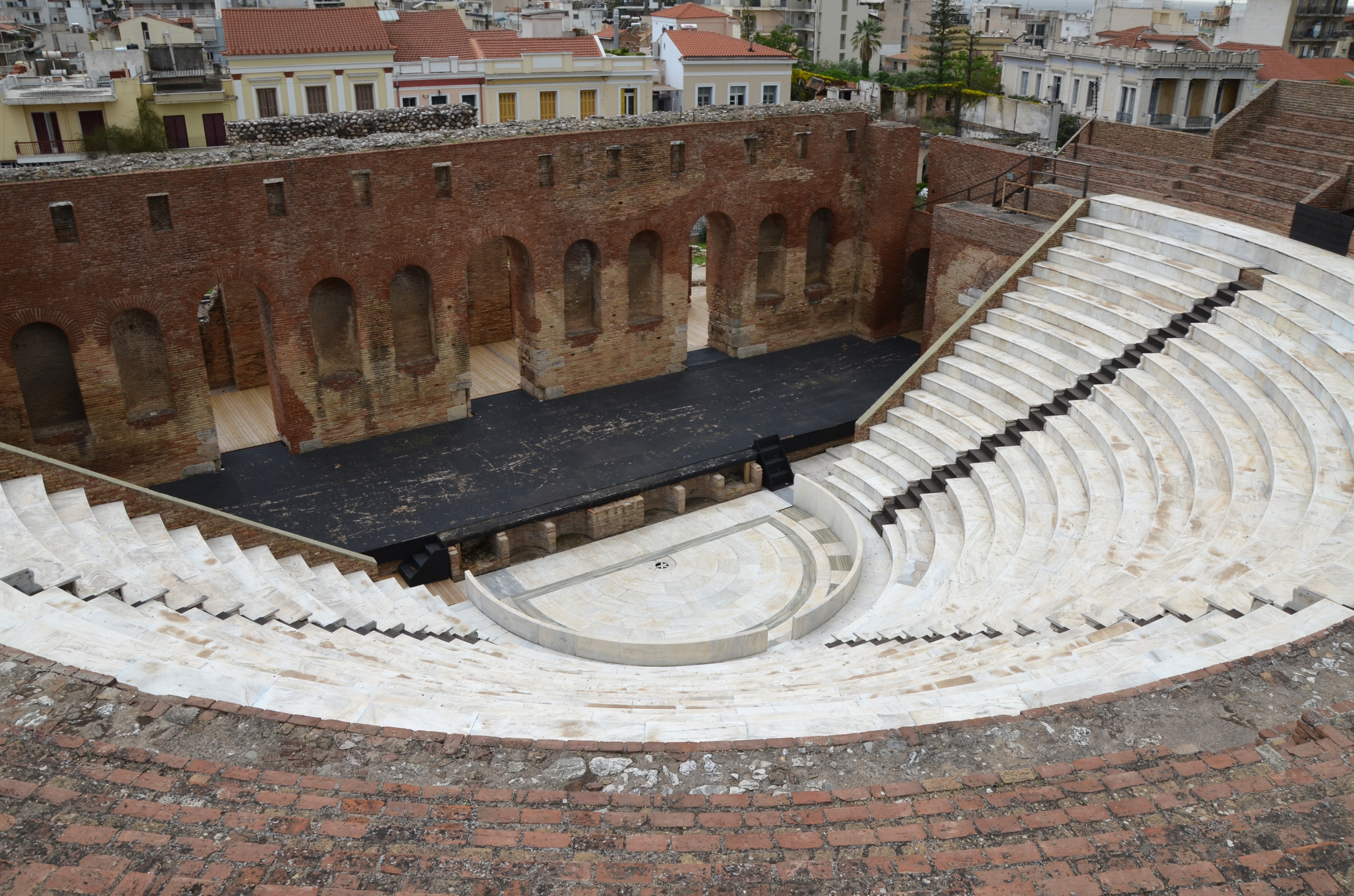 The Roman Odeon is located on the west side of Patra. It was built before the visit of Pausanias who rated it with the odeon of Herodes Atticus in Athens, as the most impressive of all the Odeons in Greece. It was rediscovered in 1889, and has been heavily restored since, including the new marble seating. The Odeon of Ancient Patrai was severely destroyed by successive invasions, wars and earthquakes. It was almost buried under the remains of other buildings and ground. The Odeon seats approximately 2300 spectators. After the establishment of the Patra International Festival held during the summer months, the Ancient Odeon constitutes the main venue, welcoming many top Greek and foreign performers.